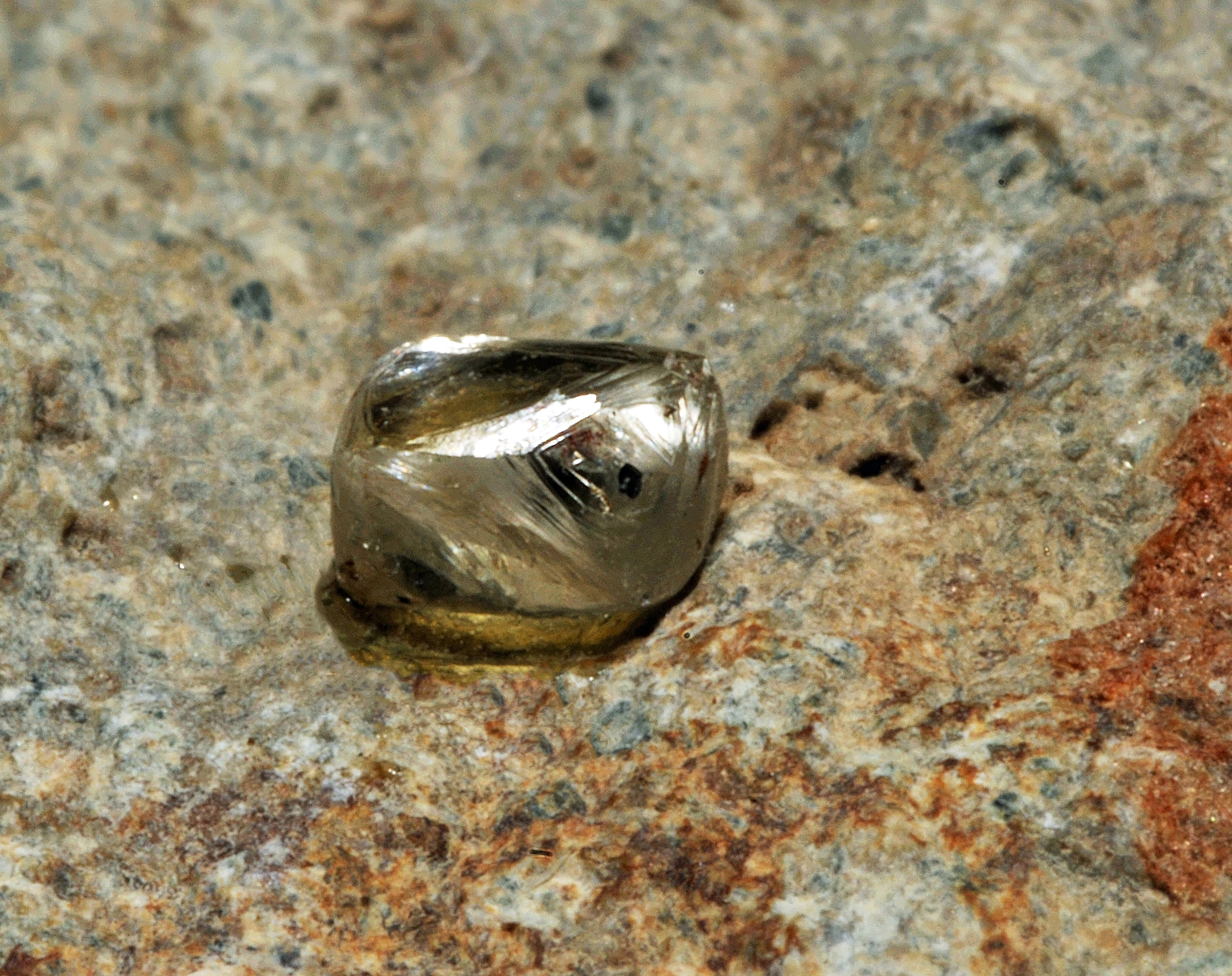 crystal of diamond, kimberlite : South Africa)